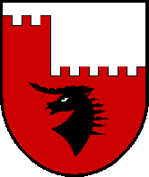 Coat of arms of Tobadill, Bezirk Landeck, Tyrol, Austria.